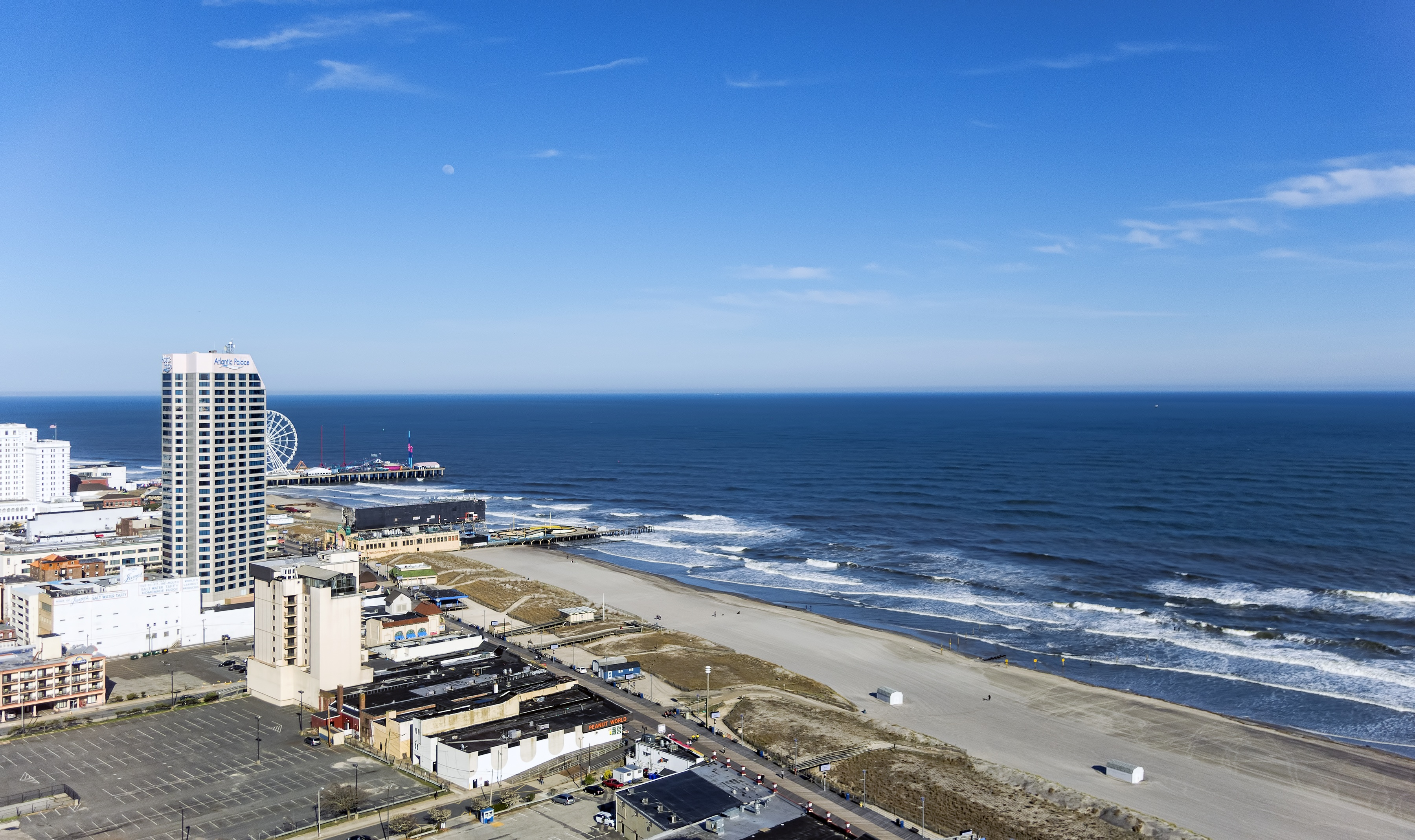 A view of the beachfront in Atlantic City